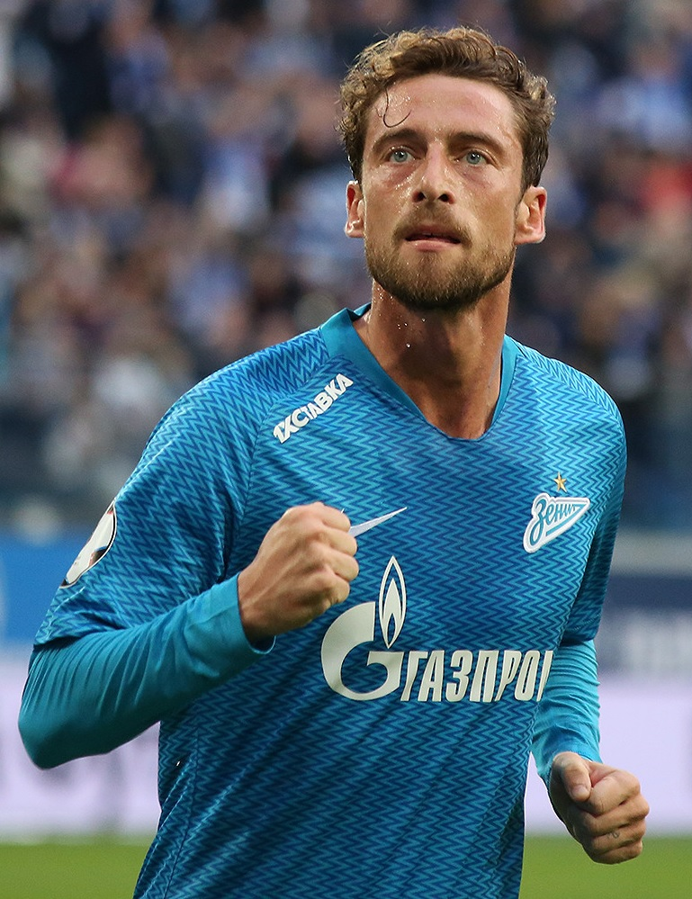 Claudio Marchisio celebrating scoring for FC Zenit Saint Petersburg against FC Akhmat Grozny.